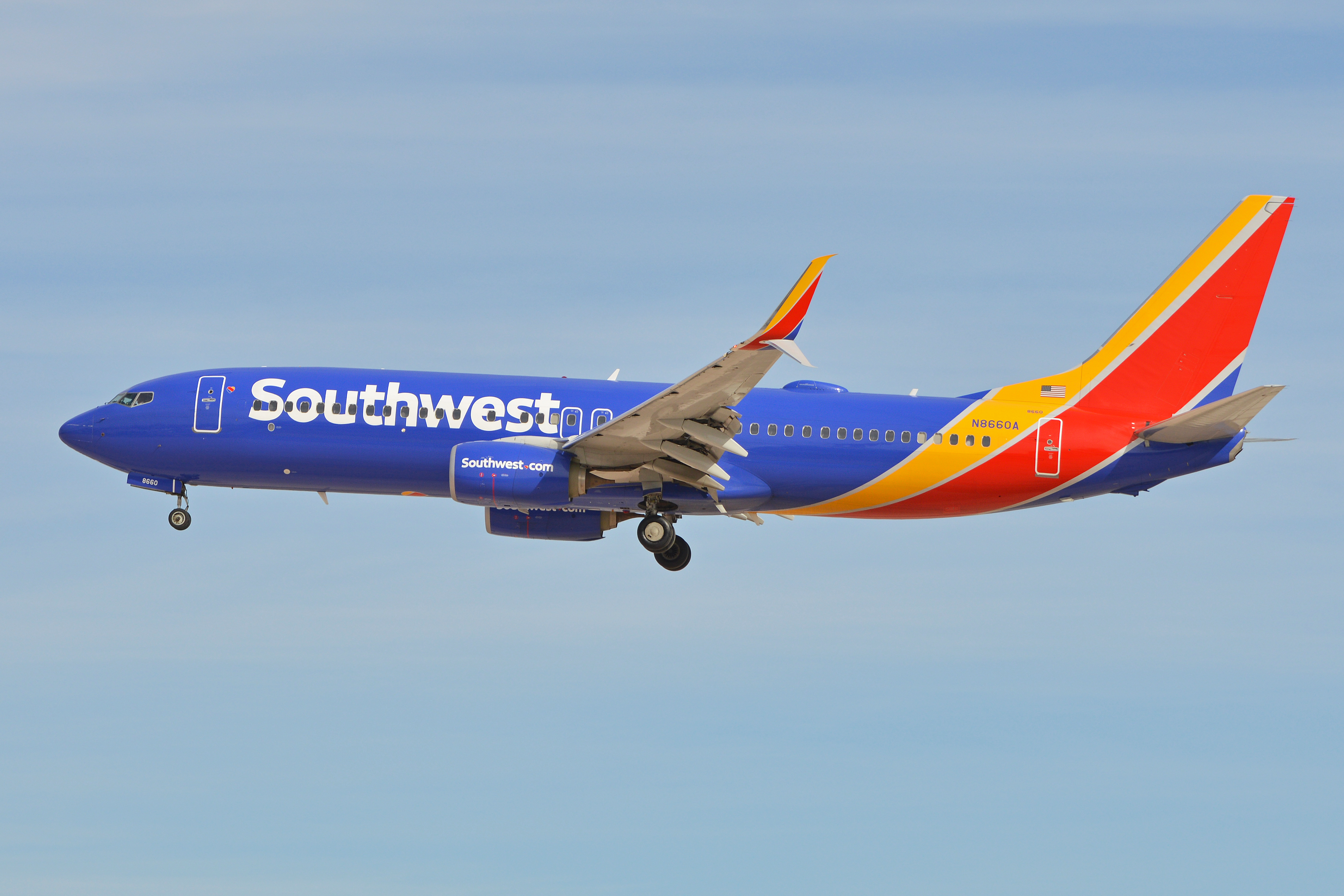 c/n 36654, l/n 5273. Built 2015. Seen arriving on flight SWA1568 from Buffalo. McCarran International Airport, Las Vegas, NV, USA. 2nd March 2016.